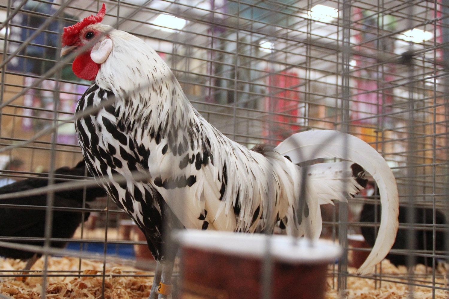 A Silver Spangled Hamburg cock at the San Diego County Fair.